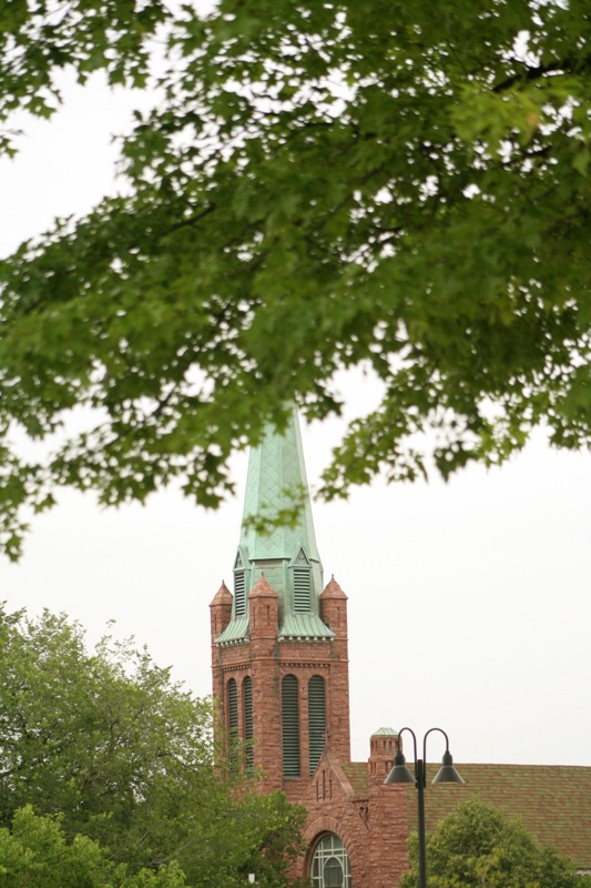 Saint Stephen's Catholic Church, Minneapolis, Minnesota